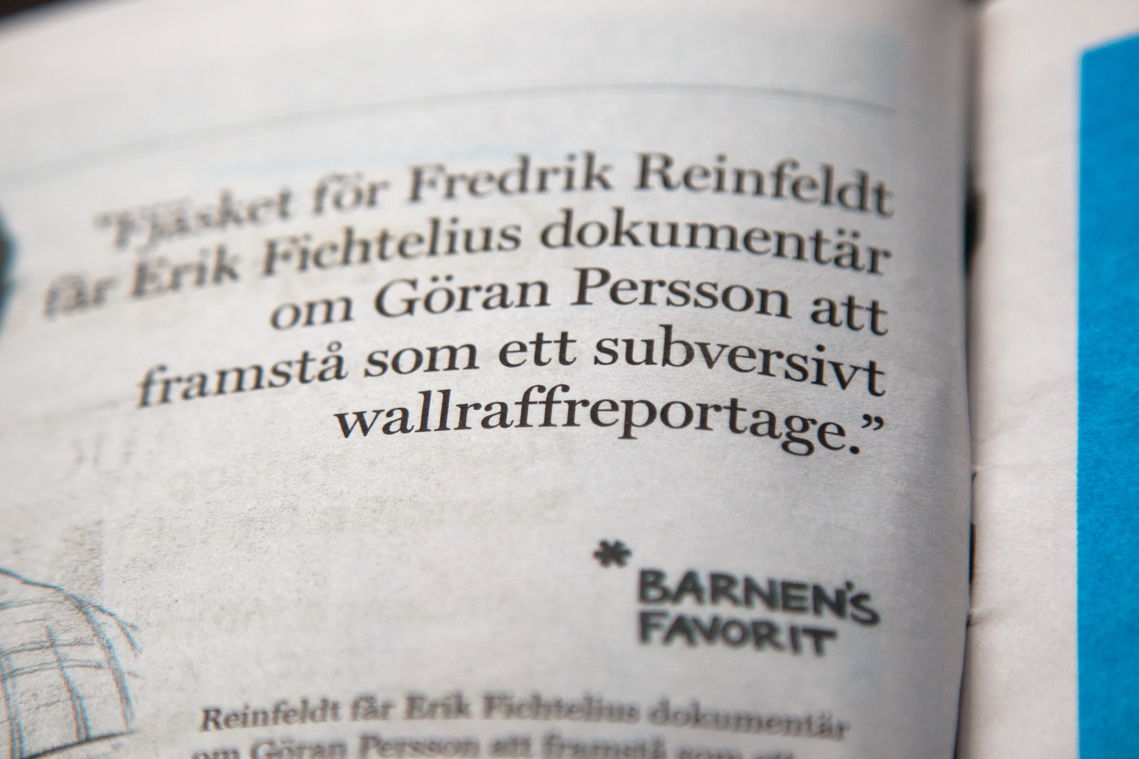 The term "wallraffreportage" appears in the swedish newspaper "Nöjesguiden" (Issue 6/7, 2011).